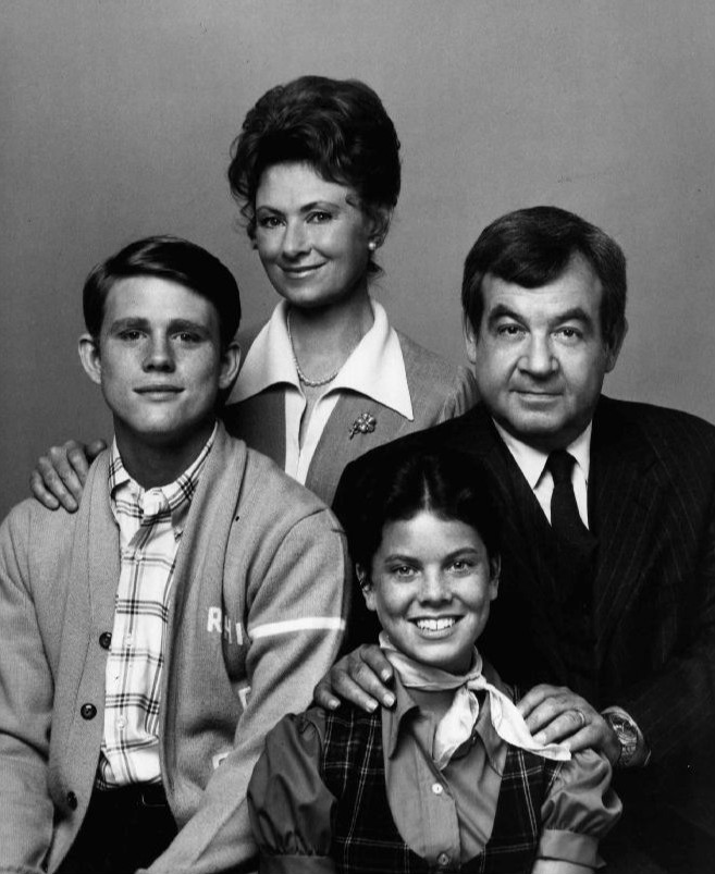 Photo of the Cunningham family from the television program Happy Days. Standing are Marion Ross (Marion Cunningham) and Tom Bosley (Howard Cunningham). Seated are Ron Howard (Richie Cunningham) and Erin Moran (Joanie Cunningham).